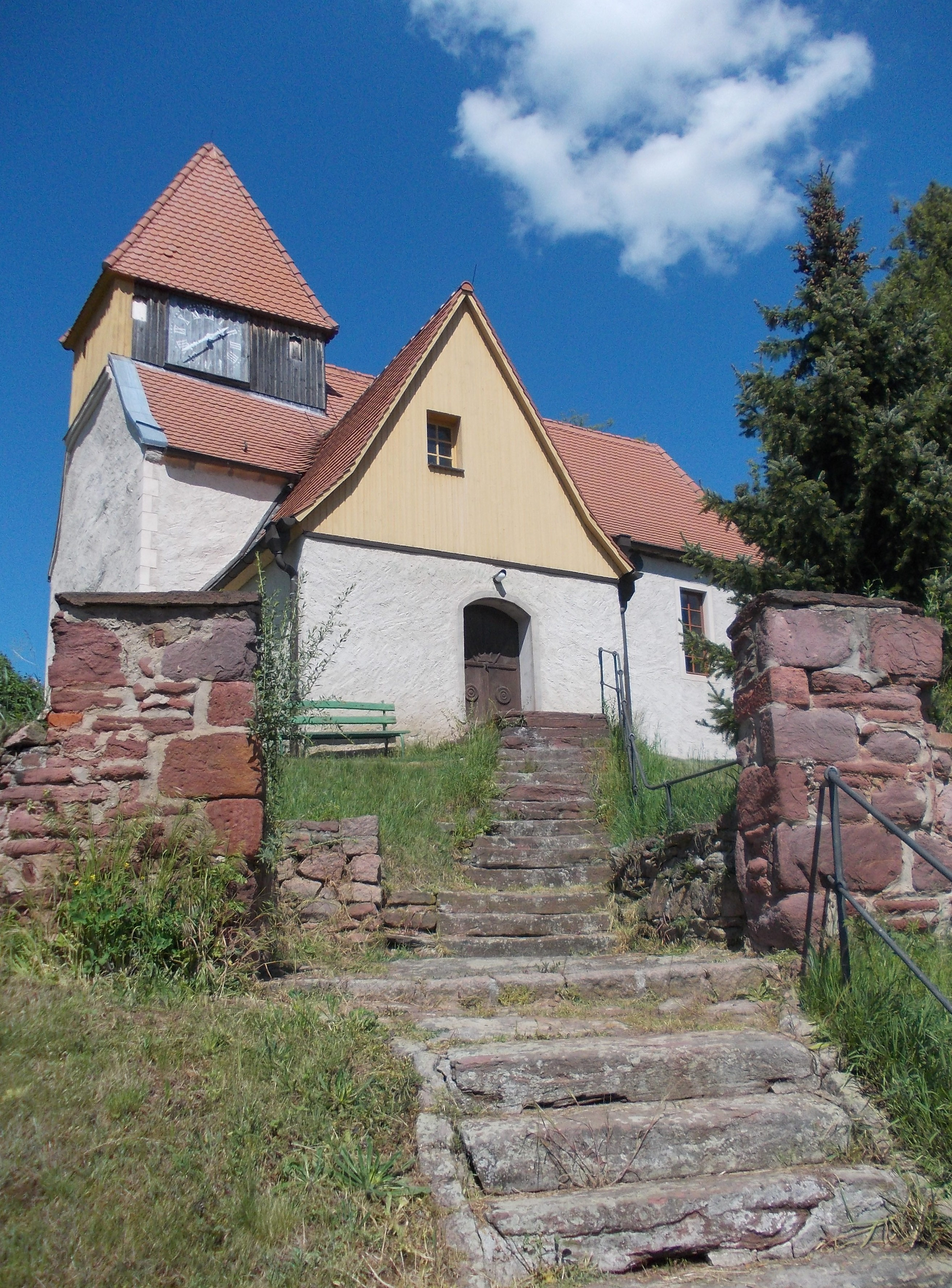 St. John's Church in Dobis (Wettin-Löbejün, district: Saalekreis, Saxony-Anhalt)